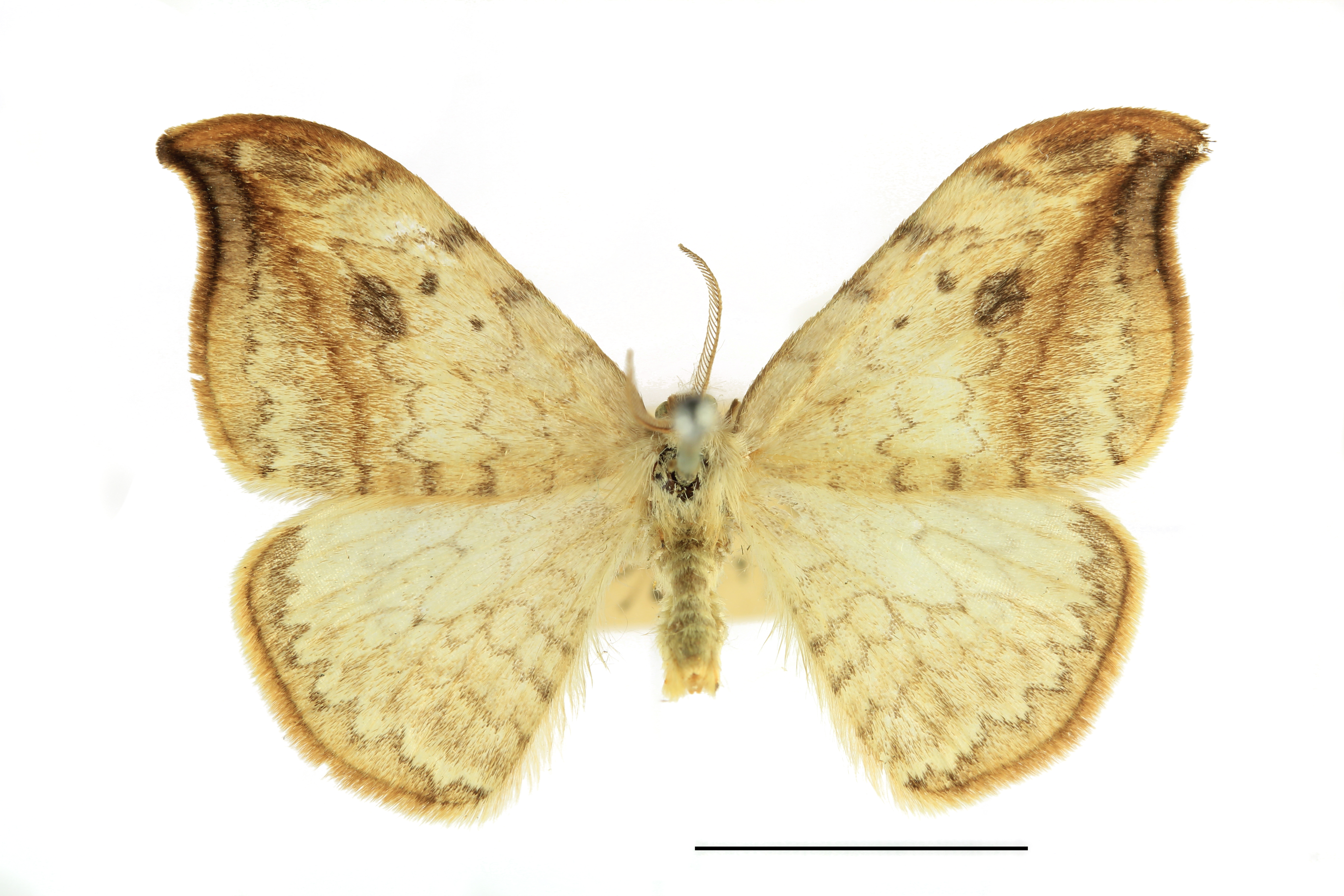 Drepana falcataria, insect collections SLU, Uppsala